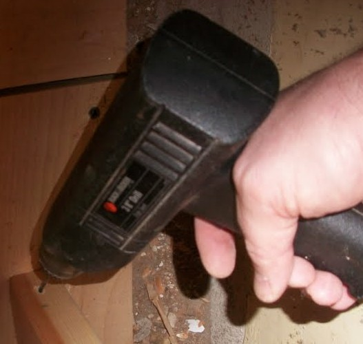 Drilling at an angle. Normally a metal brace is used to connect two perpendicular boards; sometimes a triangle can be cut, glued in, and screwed or nailed in as well. A quick alternative (but which isn't as strong) is to drill boards at an angle. Start the drill straight up, and begin drilling; then move it a 45 degree angle. Remember to use longer screws since the distance may be greater. Source of picture: here with public domain declaration on the starter article here. Questions? Write on my Wikipedia page or email me at